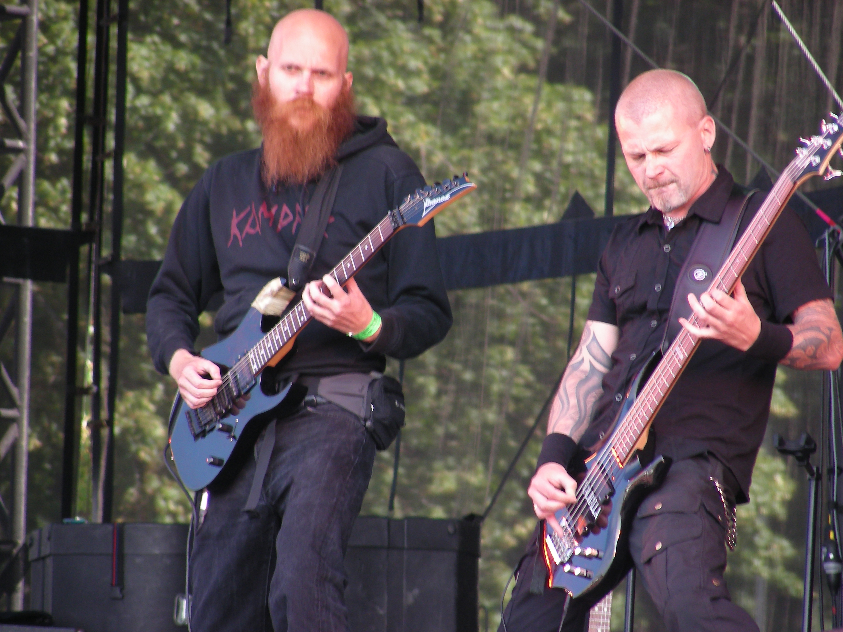 The norwegian black/pagan Metal band Kampfar at Wacken Open Air 2010